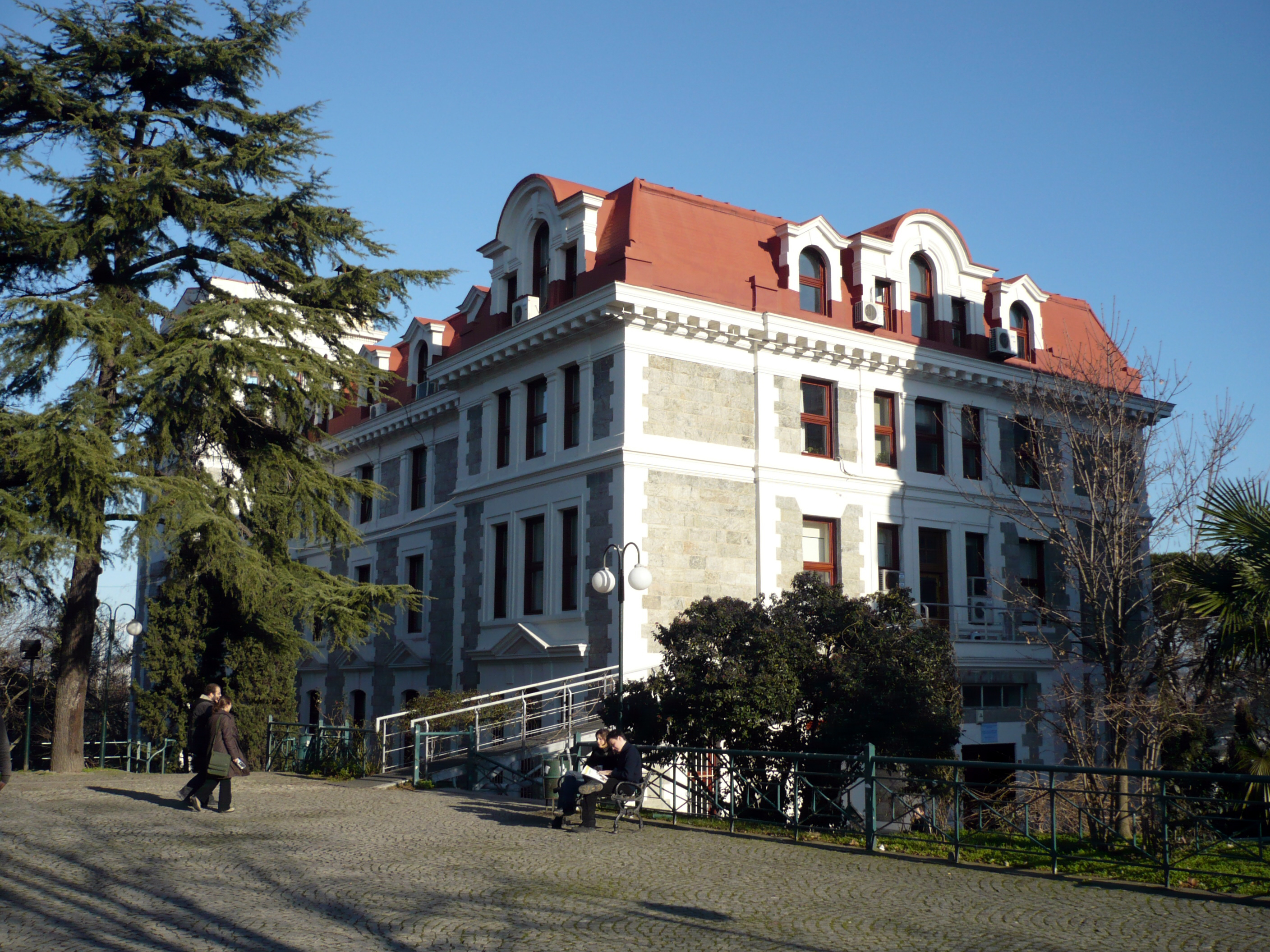 Boğaziçi University Economnics and Administrative Sciences Faculty building